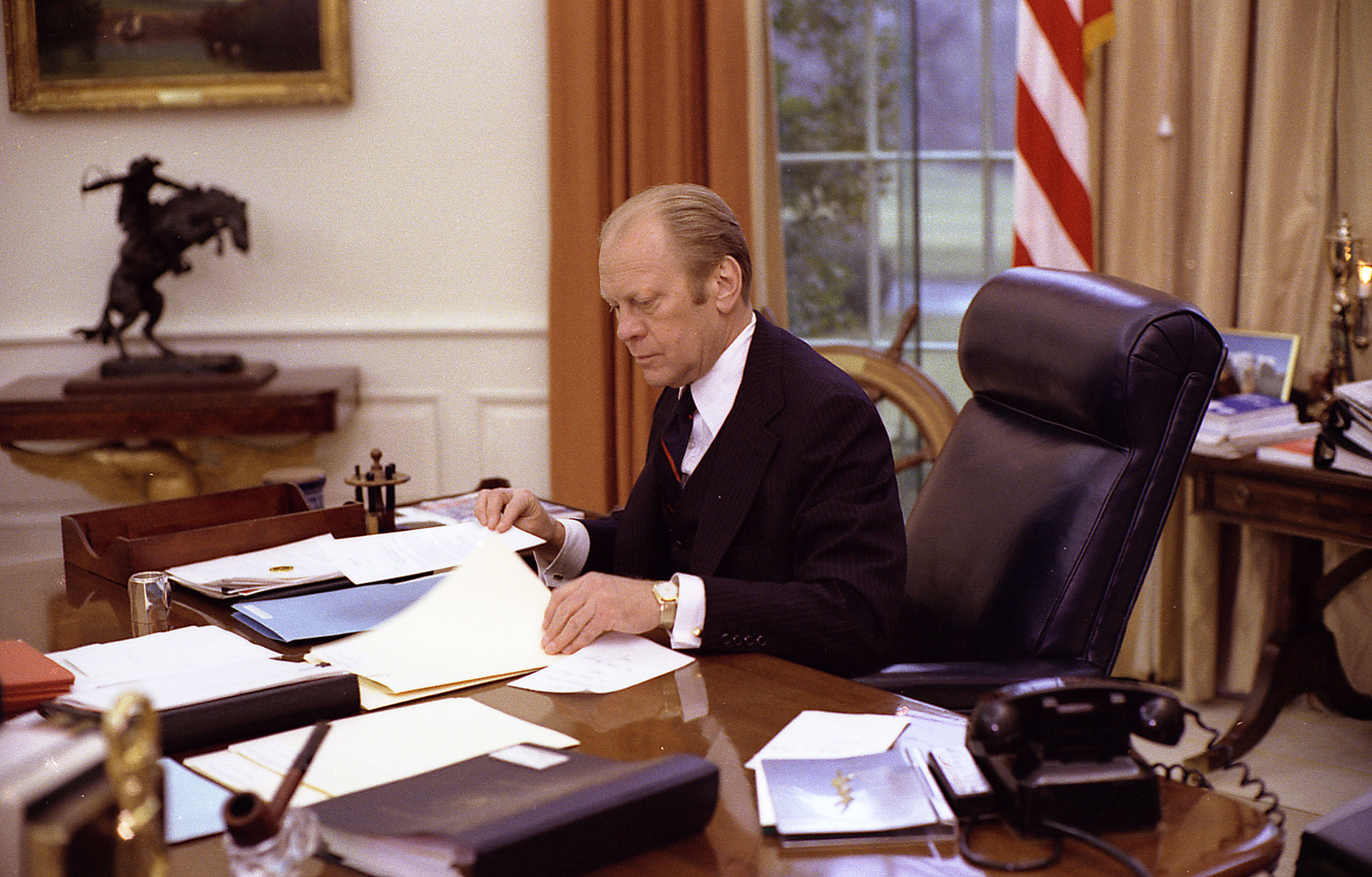 President Ford at work in the Oval Office.